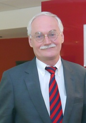 Prof Dr Maurits van Rooijen